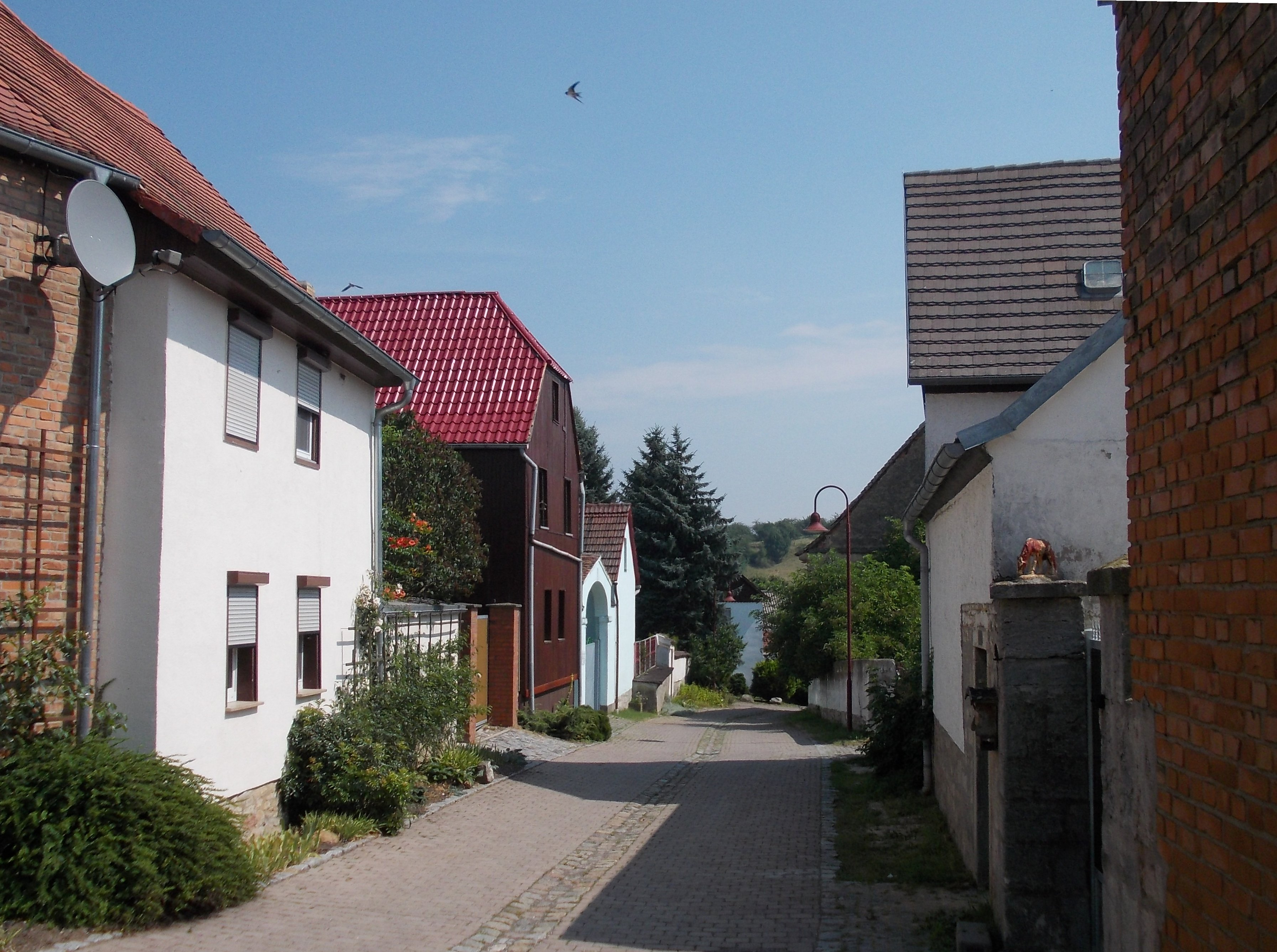 The hamlet of Rödigen (Naumburg, district: Burgenlandkreis, Saxony-Anhalt)